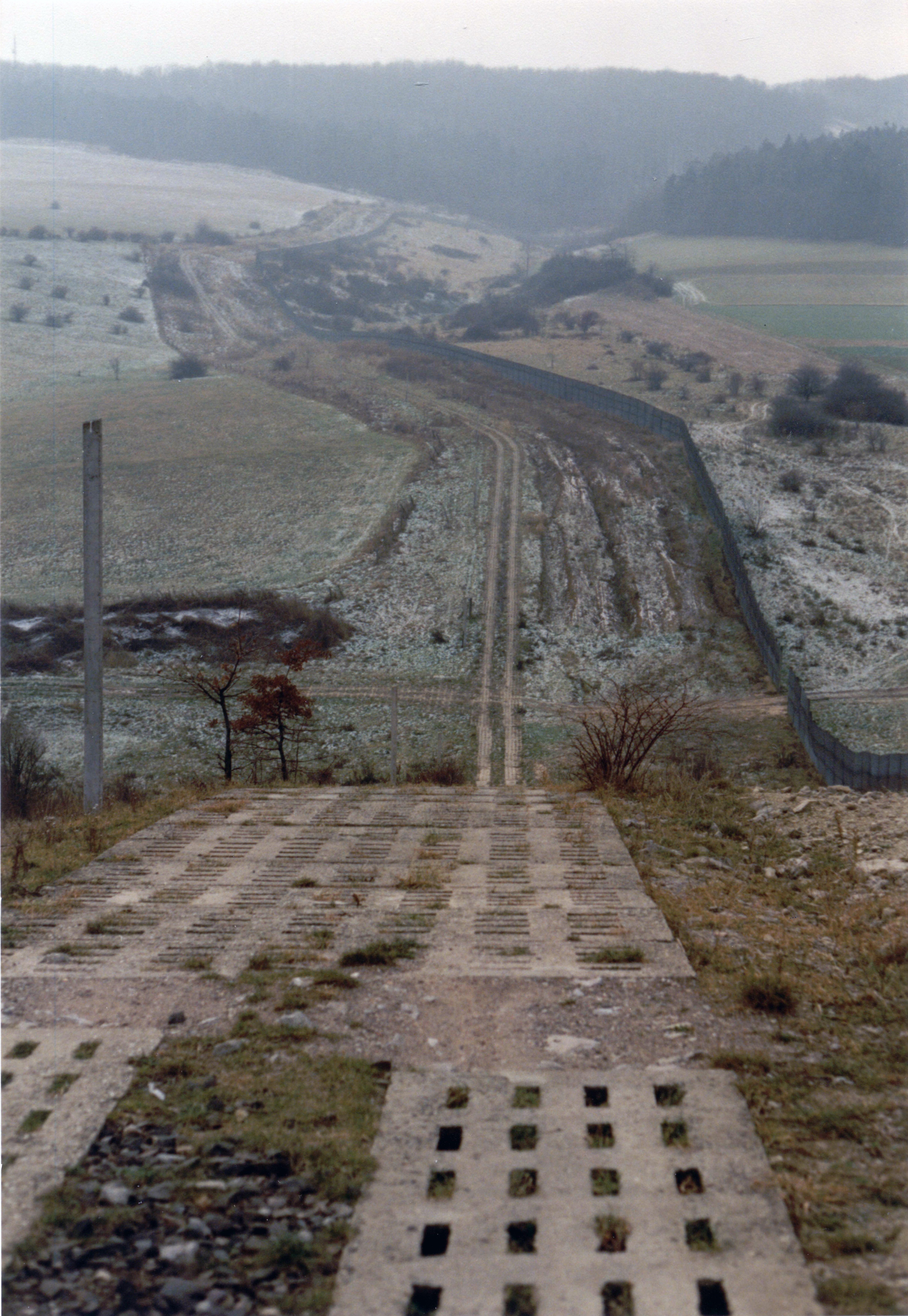 Inner German border, location between Pferdsdorf-Spichra, a village in the Kreis Eisenach in Thuringia and the village Willershausen in Ringgau in Hasse. View along double track concrete roadway in the foreground and stretching into the distance. The single fence parallels the road at right, entering about mid-picture. A dirt farm road has been made across (perpendicular to) the road with a hole in the fence for this dirt road.